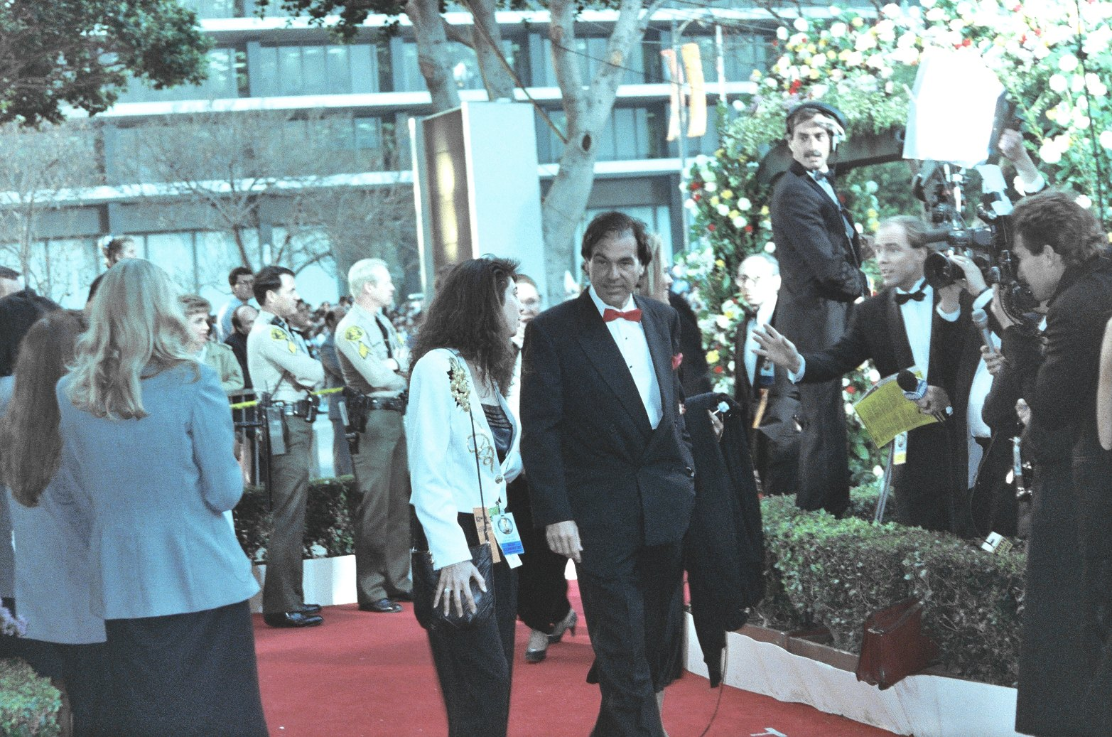 1990 Academy Awards NOTE: Permission granted to copy, publish, broadcast or post any of my photos, but please credit "photo by Alan Light" if you can. Thanks. Scanned from the original 35MM film negative.